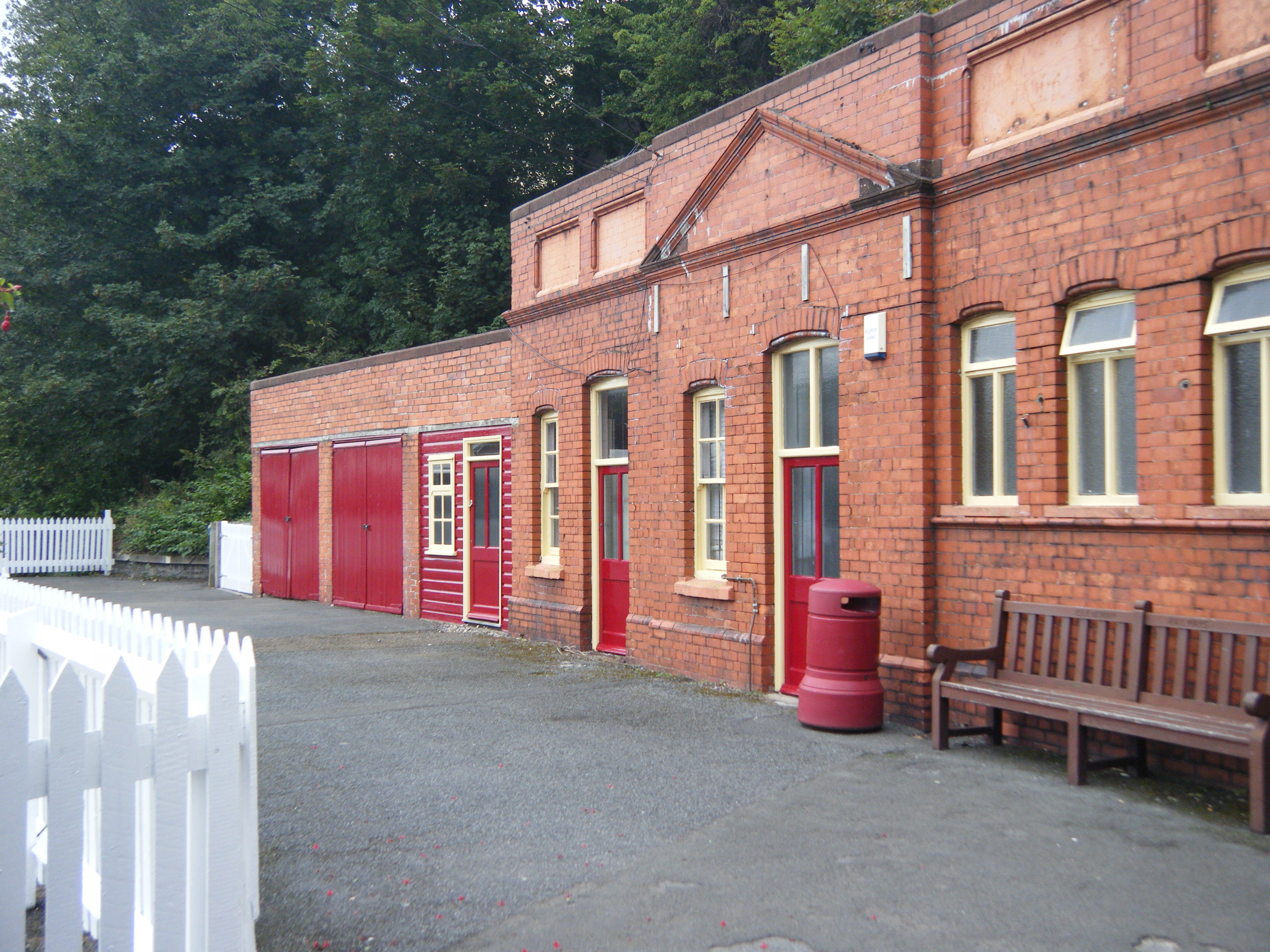 The old stables at Douglas Railway Station